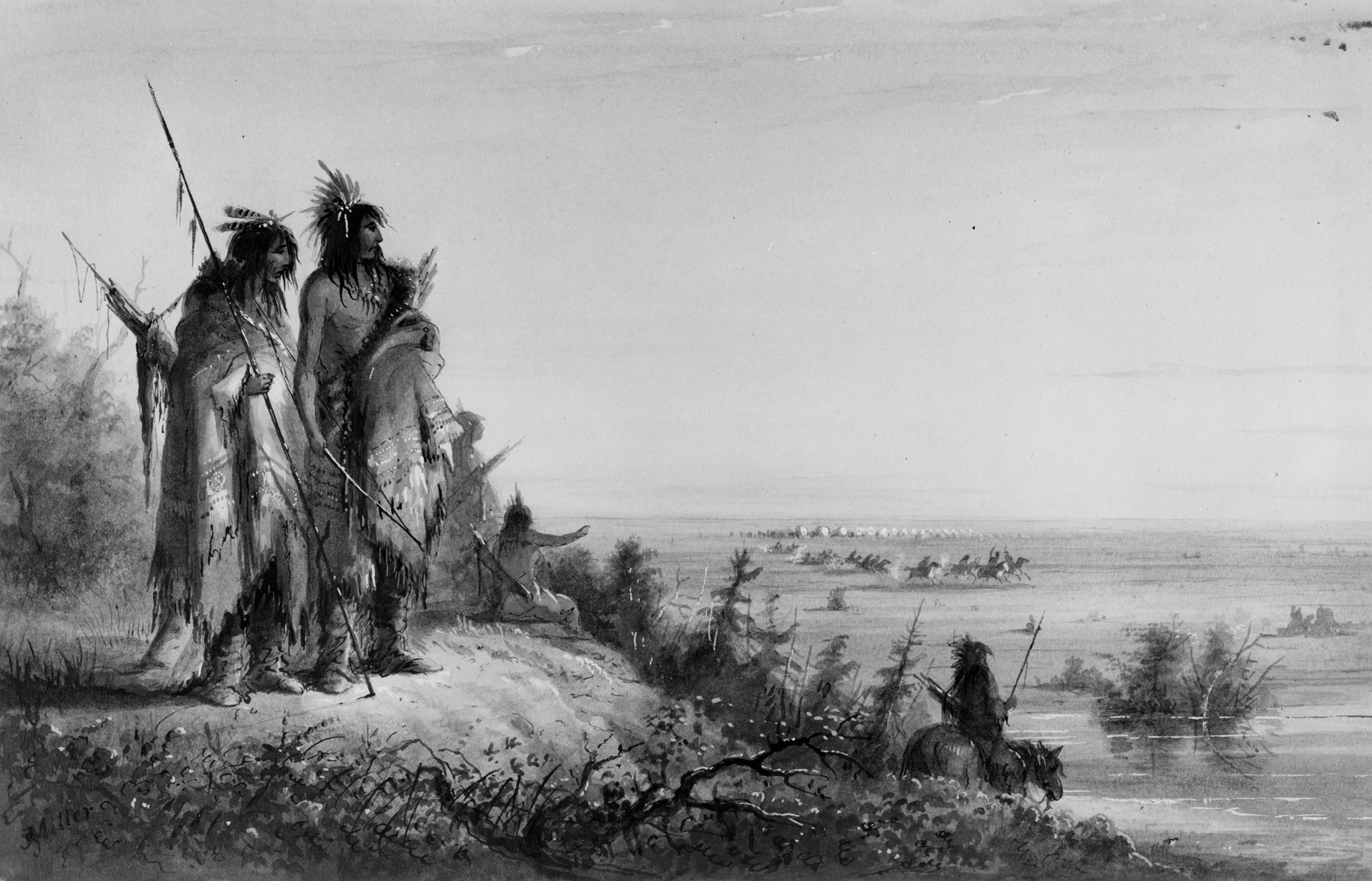 South Pass, or the Continental Divide, was the gateway to Oregon and California. The southwestern desert was not yet as fully explored as the Midwest, and so the trail along the Platte became the favored route. Discovered in 1812, the pass remained unknown to Anglo-Americans until a group of Crow Indians told Jedediah Smith and Thomas Fitzpatrick about it in 1824. After William H. Ashley started the rendezvous system in 1825, Fitzpatrick and others used South Pass as the entrance to the best beaver country in the mountains. Here Miller pictures the frenzy that possessed the men as they neared the fresh water. The Indians, watching in contempt, Miller suggested, had much the same attitude as did Captain Stewart, who would not run his horse for the water but walked casually along as if he did not feel the same thirst that possessed the men.